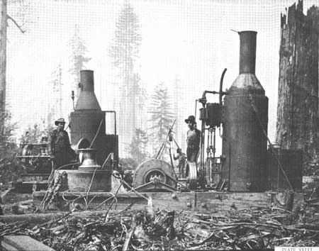 A Dolbeer Spool Donkey, with Bull Donkey in the Background, Fort Dick area, circa 1900.